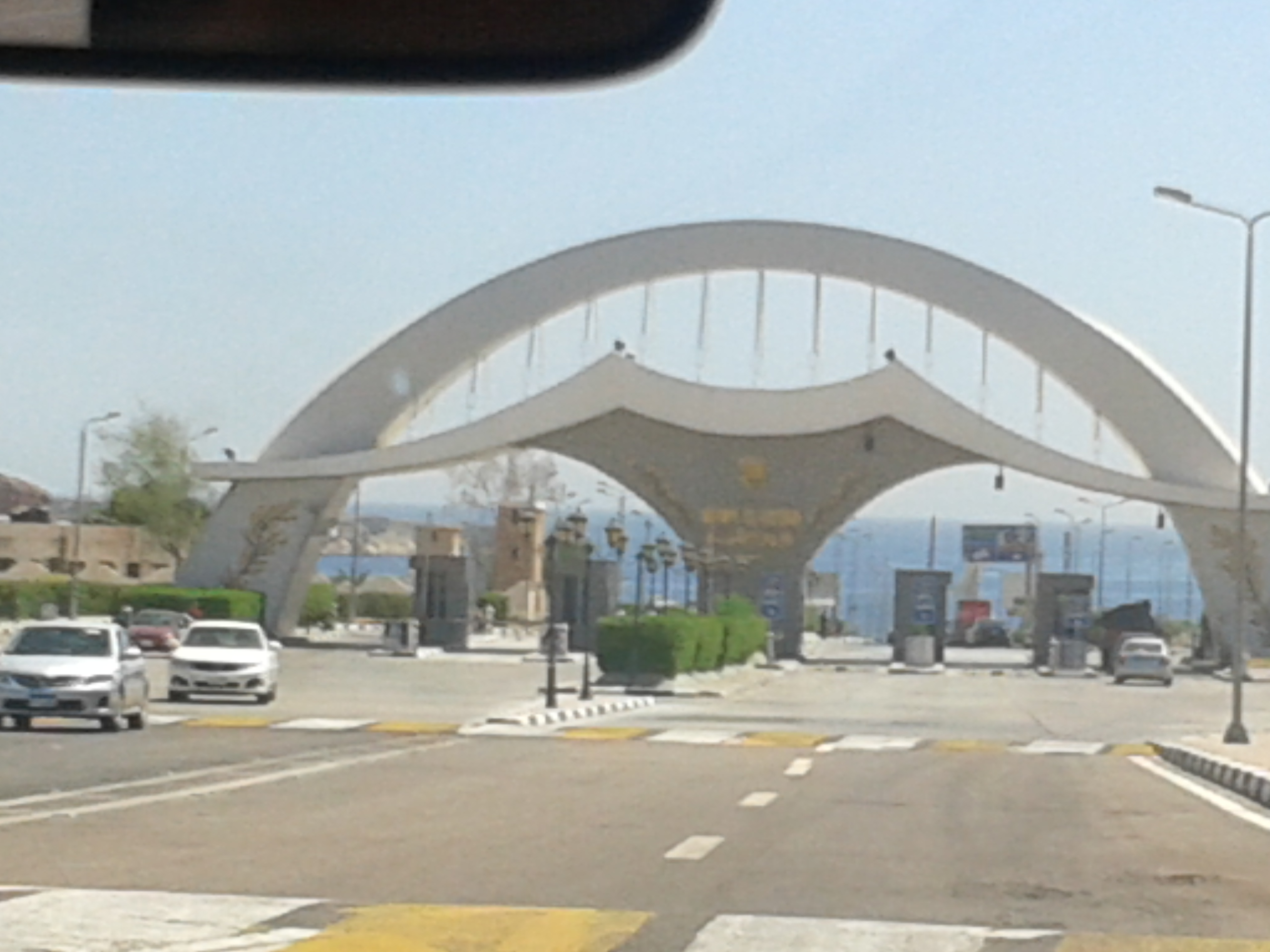 Sharm el-Sheikh city entrance